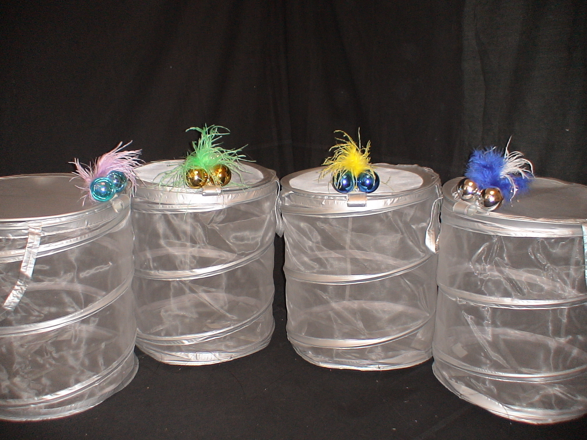 GARBAGE CANS, horizontal marionettes, Nikolai Zykov Theatre, Russia. Nikolai Zykov - Soviet and Russian actor, producer, artist, designer, puppet-maker, master puppeteer, author of over 20 puppet performances. Nikolai Zykov has created and has made over 80 puppet vignettes with participation of marionettes, hand, rod, giant, radio-controlled and experimental puppets. Nikolai Zykov has performed in 35 countries around the world.